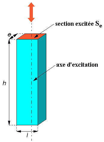 Example of geometry for tension-compression specimen (case of rigid materials), used in dynamic mechanical analysis (DMA).